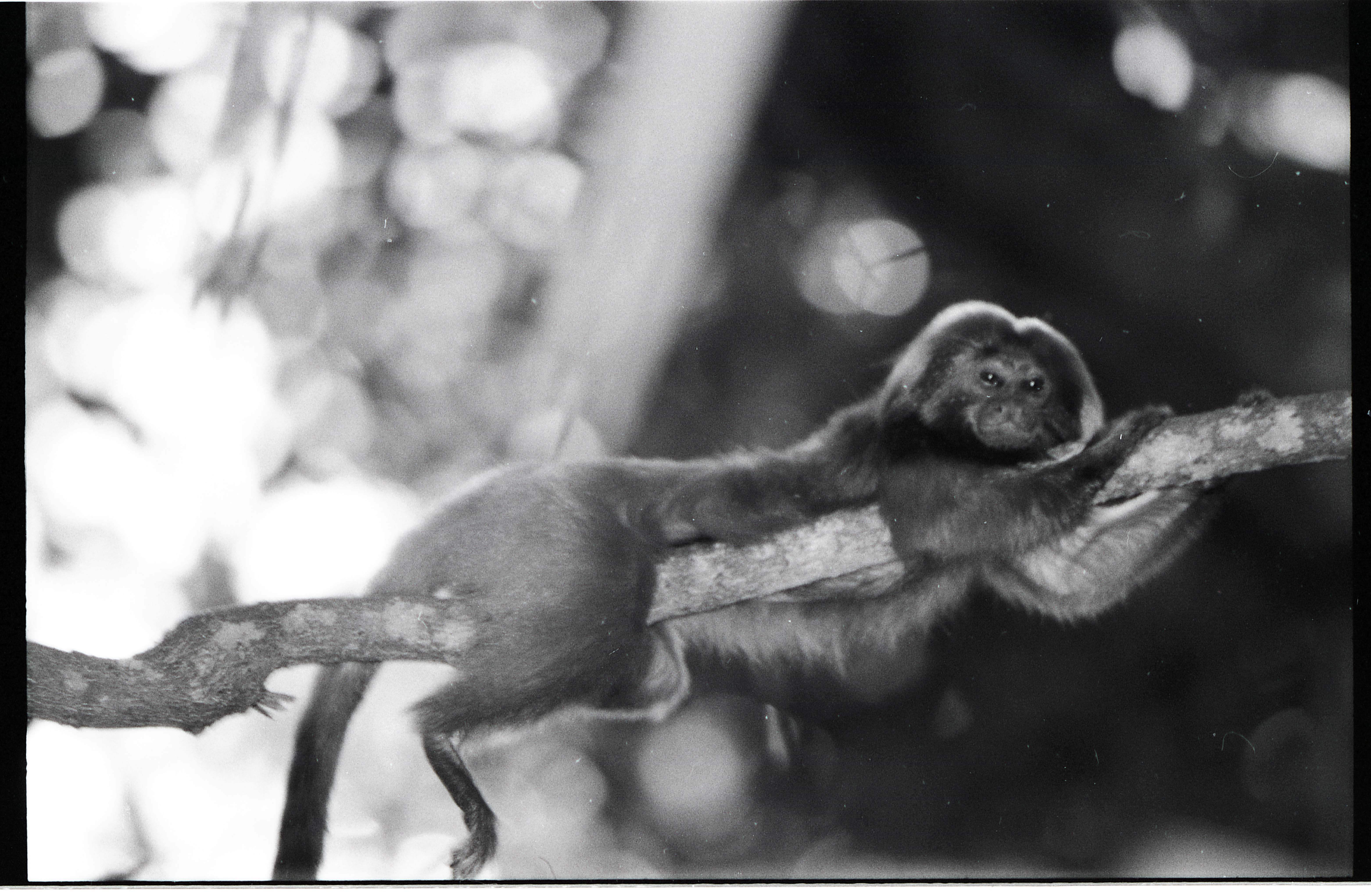 Creator: Devra Kleiman Local number: SIA2011-2205 Summary: Golden lion tamarin lying on a branch. Location is probably Poco das Antas Biological Reserve, Brazil. Dates: 1997 Collection: Acc 11-124 Devra G. Kleiman Papers, 1967-2010. Box 13, Folder 5. Repository: Smithsonian Institution Archives Related blog post: Field Notes from a Battle Against Extinction View more collections from the Smithsonian Institution.